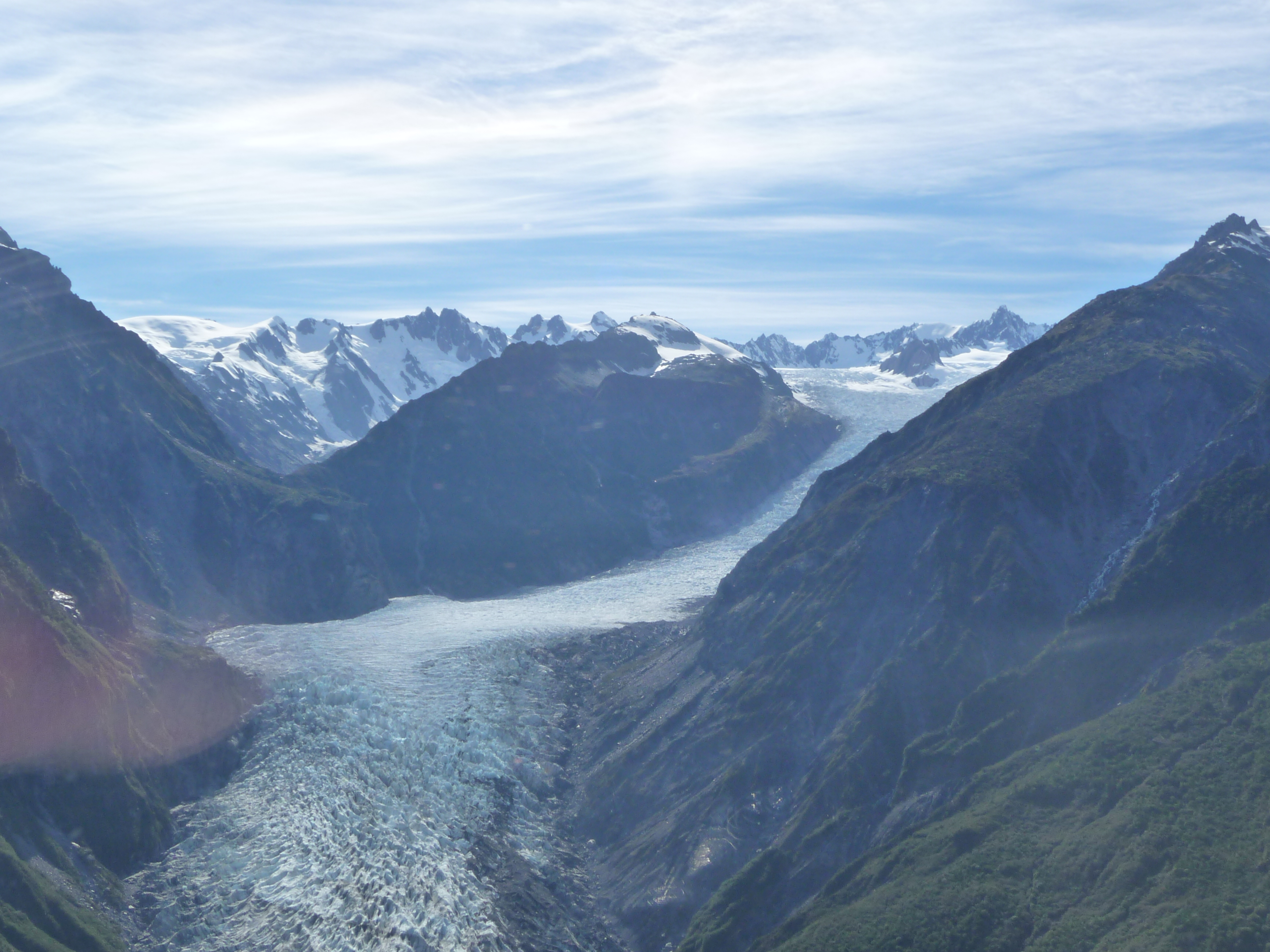 Aerial view of Fox Glacier